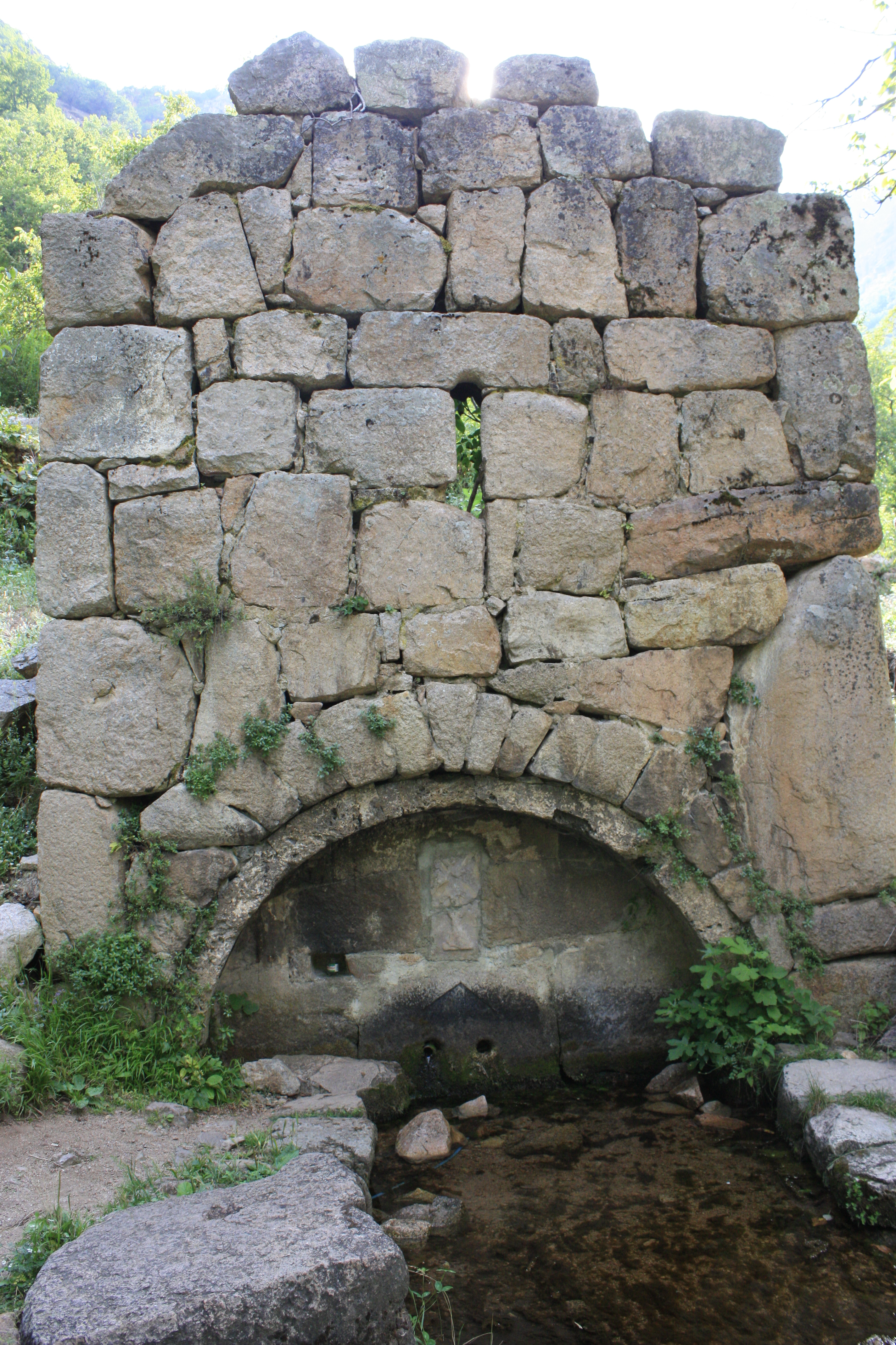 Georgian cathedral Khandzta in historical Georgian region Tao-Klarjeti